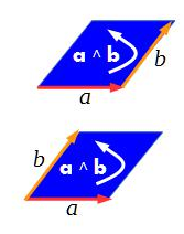 bivector